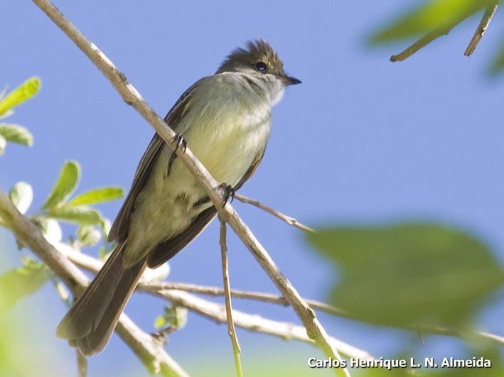 Elaenia spectabilis at Brotas, Sao Paulo, Brazil